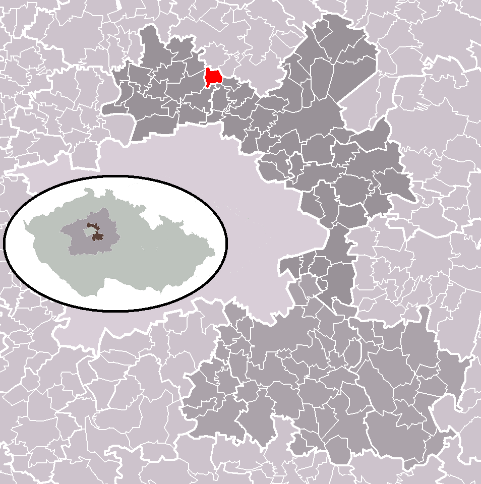 Location of Zlonín municipality within Prague-East District and administrative area of Brandýs nad Labem-Stará Boleslav as a Municipality with Extended Competence.